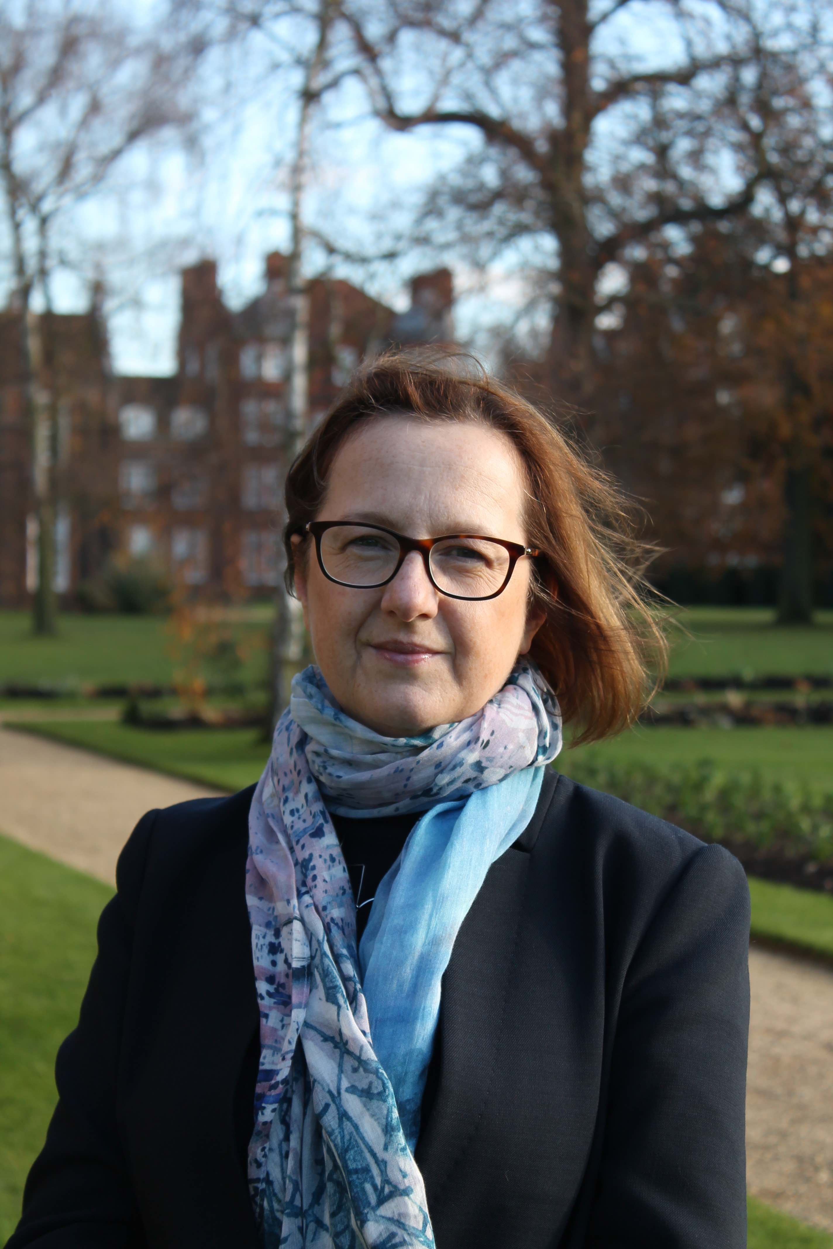 Professor Kasia Jaszczolt at Newnham College, 2017